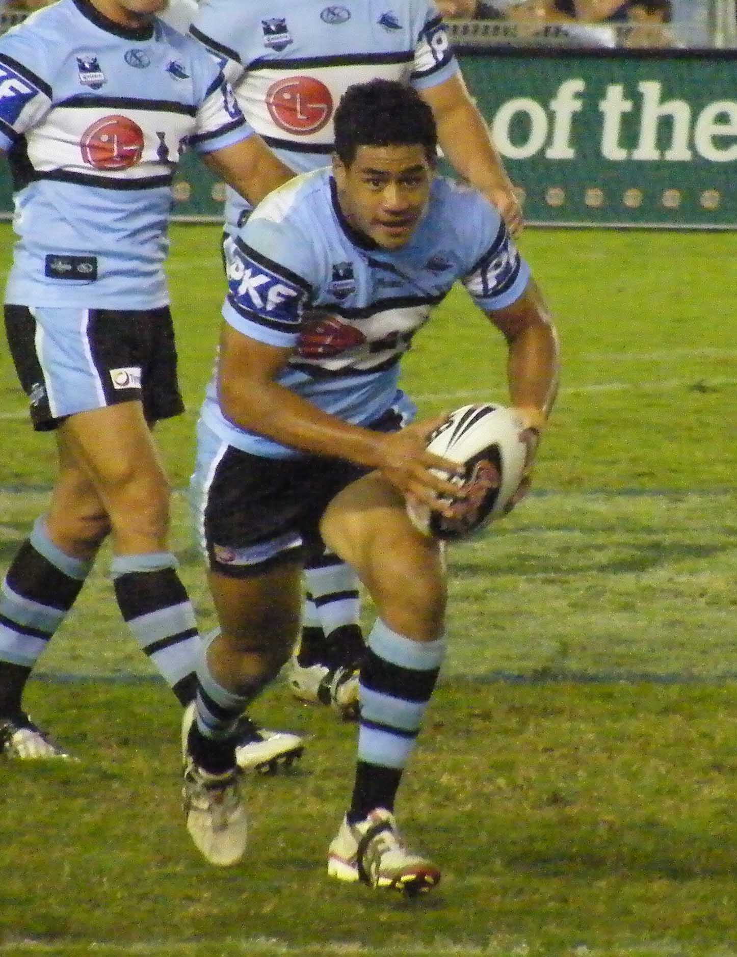 Matthew Wright of Cronulla RLFC